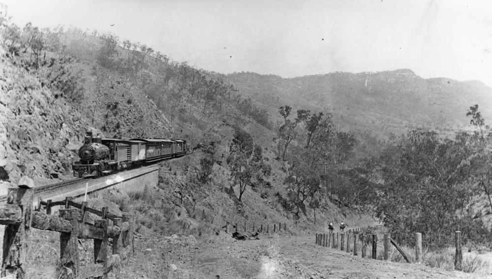 Passenger train on the Mount Morgan Rack Railway track, 1913 The locomotive engine is PB 15 and it is pulling several passenger carriages. There are two horsemen riding along a track beside the railway line, which was the original Razorback Road to Mount Morgan from the coast.